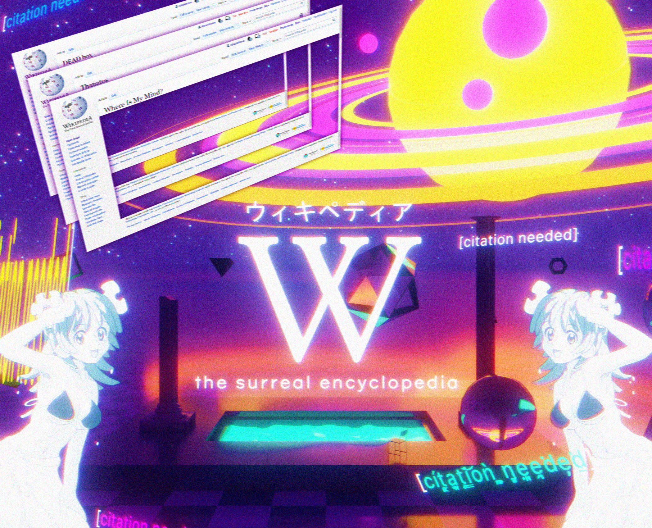 an example of vaporwave art